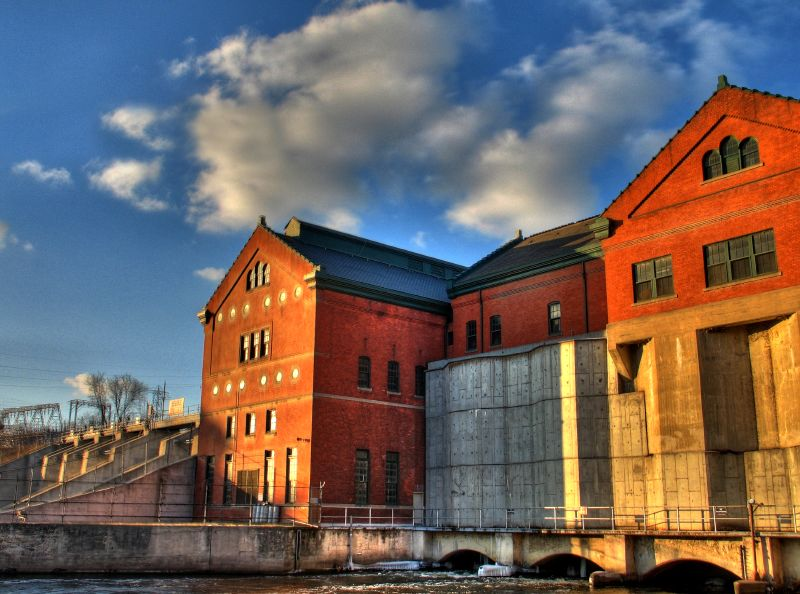 (by Brian.H, from the Flickr page) Combo of three handheld images. The left-hand side of this shows where the s/w couldn't match everything up quite right. I really have to remember to throw my tripod in the car! At least I don't forget the camera when I leave the house :) From the historical marker: The Croton Hydroelectric Generating Dam began operation in 1907. It is capable of generating 8,800 kilowatts of electricity, enough to serve a community of about 4,900 people. The plant is located in Newaygo County’s Croton Township. (by user:Lar) Croton Dam is a dam and powerplant complex on the Muskegon River in Croton Township, Newaygo County, Michigan, operated by Consumers Energy. This composite was created from images taken from the downstream side, to the SE of the powerhouse. This image is near the E end of the dam, at location A on the locator, facing NW